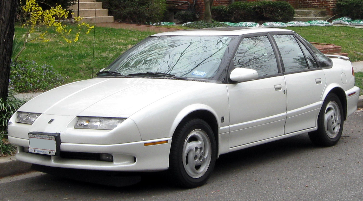 1994 Saturn SL2 Homecoming Edition photographed in Washington, D.C., USA.